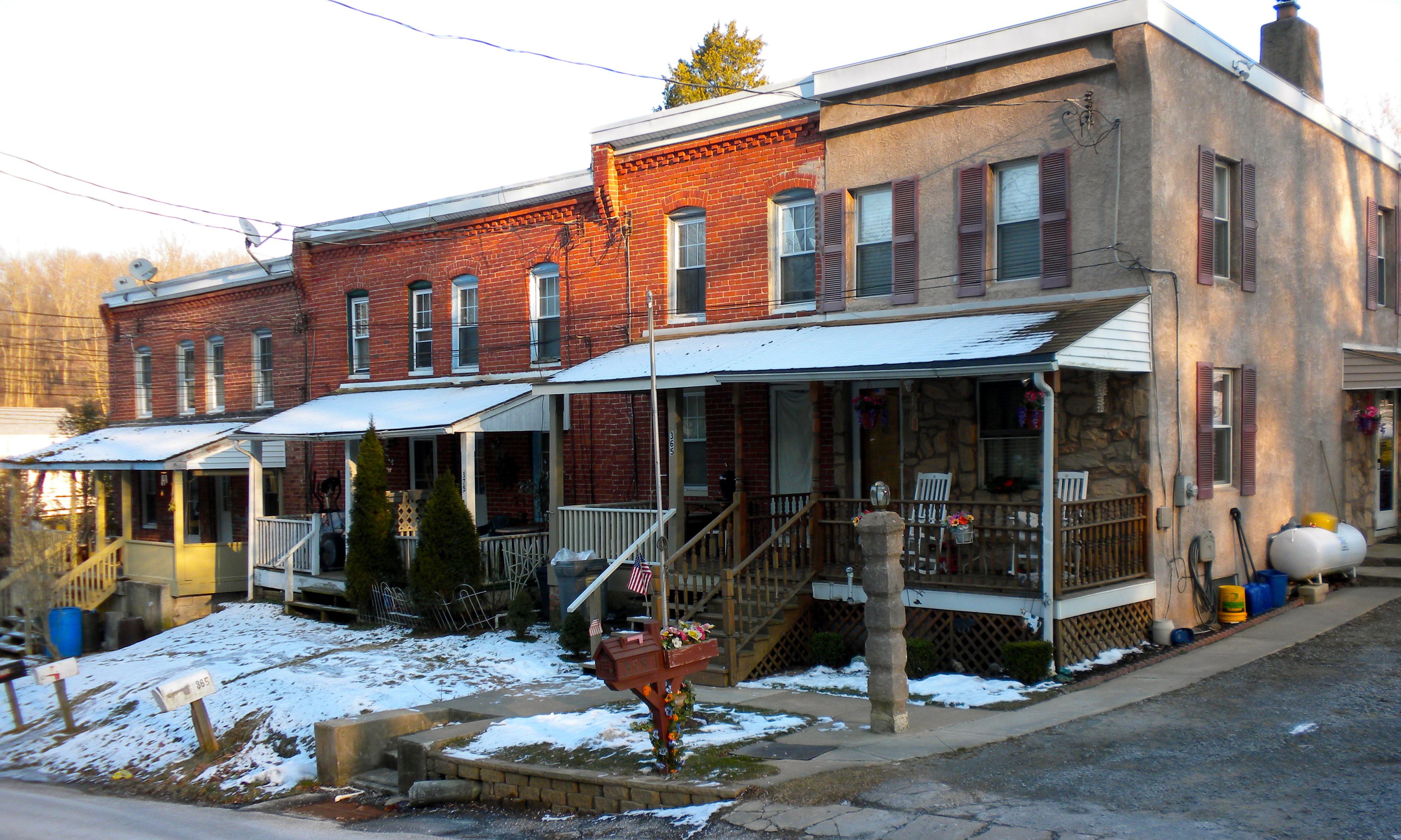 Brandywine Building and Loan Row Houses out in the middle of the country in Chester County, Pennsylvania on Hephzibah Road, sort of near Modena. On NRHP presumably because these city buildings are in the middle of nowhere.